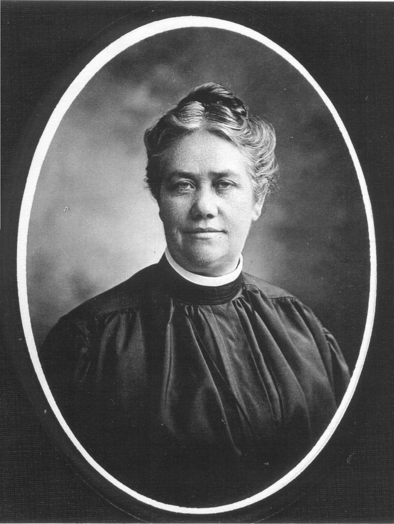 Alma Bridwell White circa 1920 Source Franklin Township Public Library archive